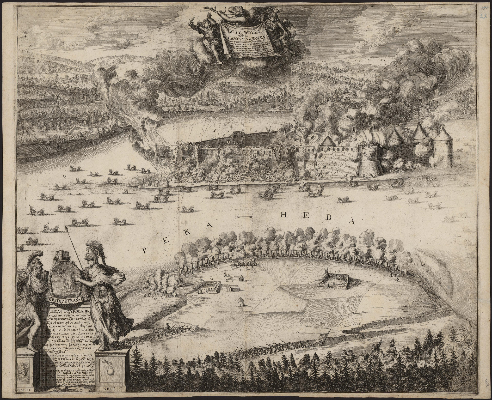 Siege of Nöteborg in 1702